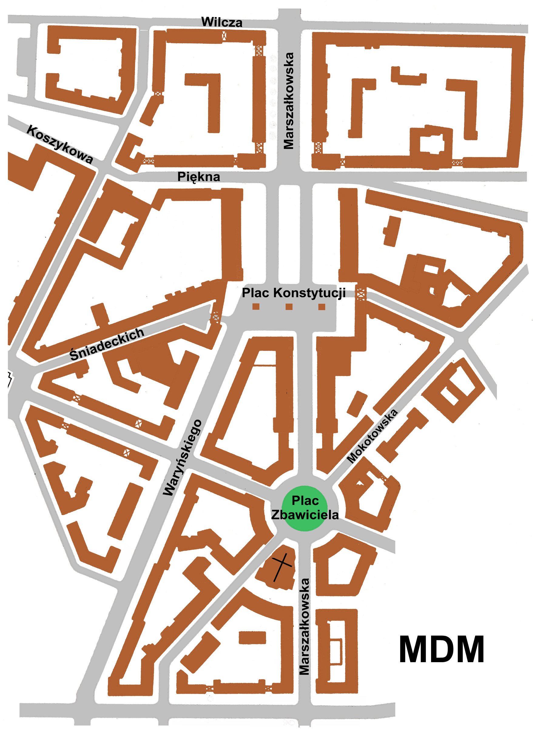 Plan of the Warsaw Constitution Square